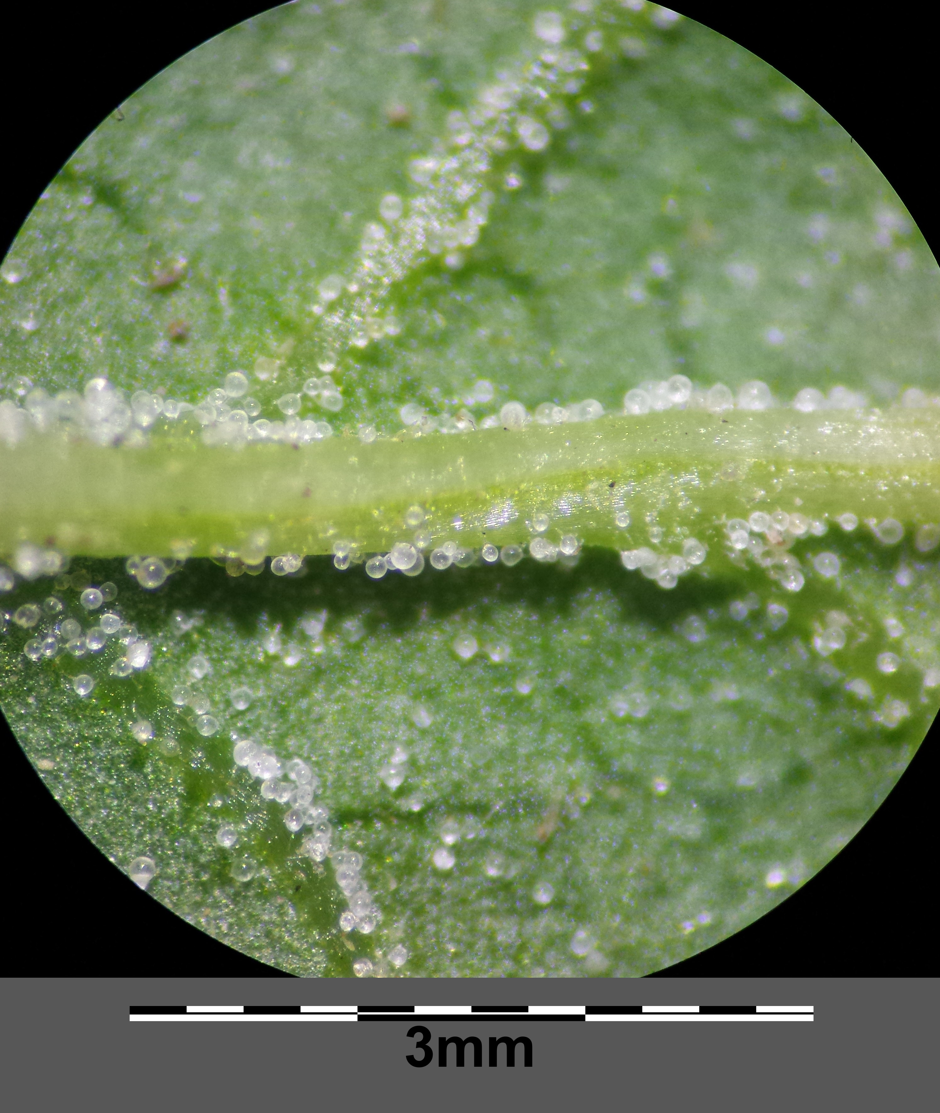 Farinose bottom side of leaf Taxonym: Chenopodium bonus-henricus ss Fischer et al. EfÖLS 2008 ISBN 978-3-85474-187-9 Location: grain storage building next to Ernstbrunn castle, district Korneuburg, Lower Austria - ca. 370 m a.s.l. Habitat: meadows